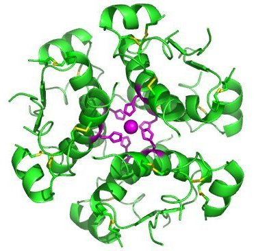 Created by Isaac Yonemoto created with pymol, inkscape, and gimp from NMR structure 1ai0 in the pdb. Ref: Chang, X., Jorgensen, A.M., Bardrum, P., Led, J.J. Contents 1 Licensing 2 Original upload log 3 Licensing 4 Original upload log Licensing Original upload log The original description page was here. All following user names refer to en.wikipedia. 2006-03-24 06:14 Takometer 640×434×8 (41713 bytes) Created by Isaac Yonemoto Category:Hormones of glucose control Category:Peptide hormones Category:Pancreatic hormones